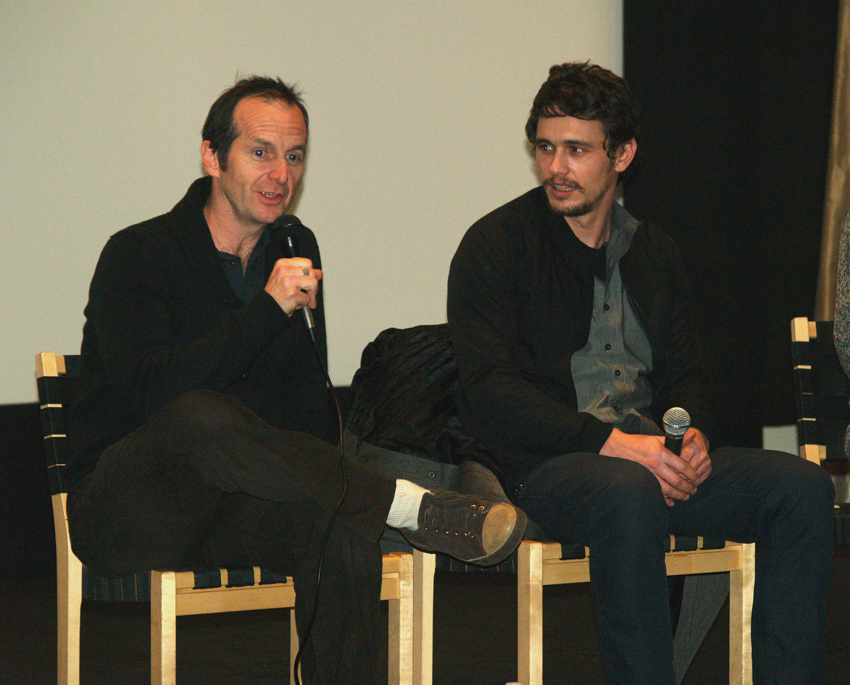 Denis O'Hare and James Franco discussing the film Milk about Harvey Milk. Photographer's blog post about the event in the photo.